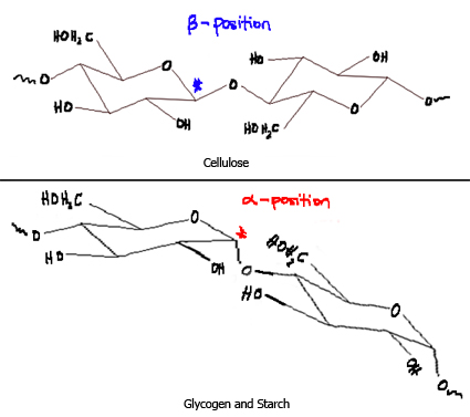 Beta linkages have the linking OH bond on the same side as the CH2OH. Alpha linkages have the linking OH bond on the opposite side of the CH2OH.